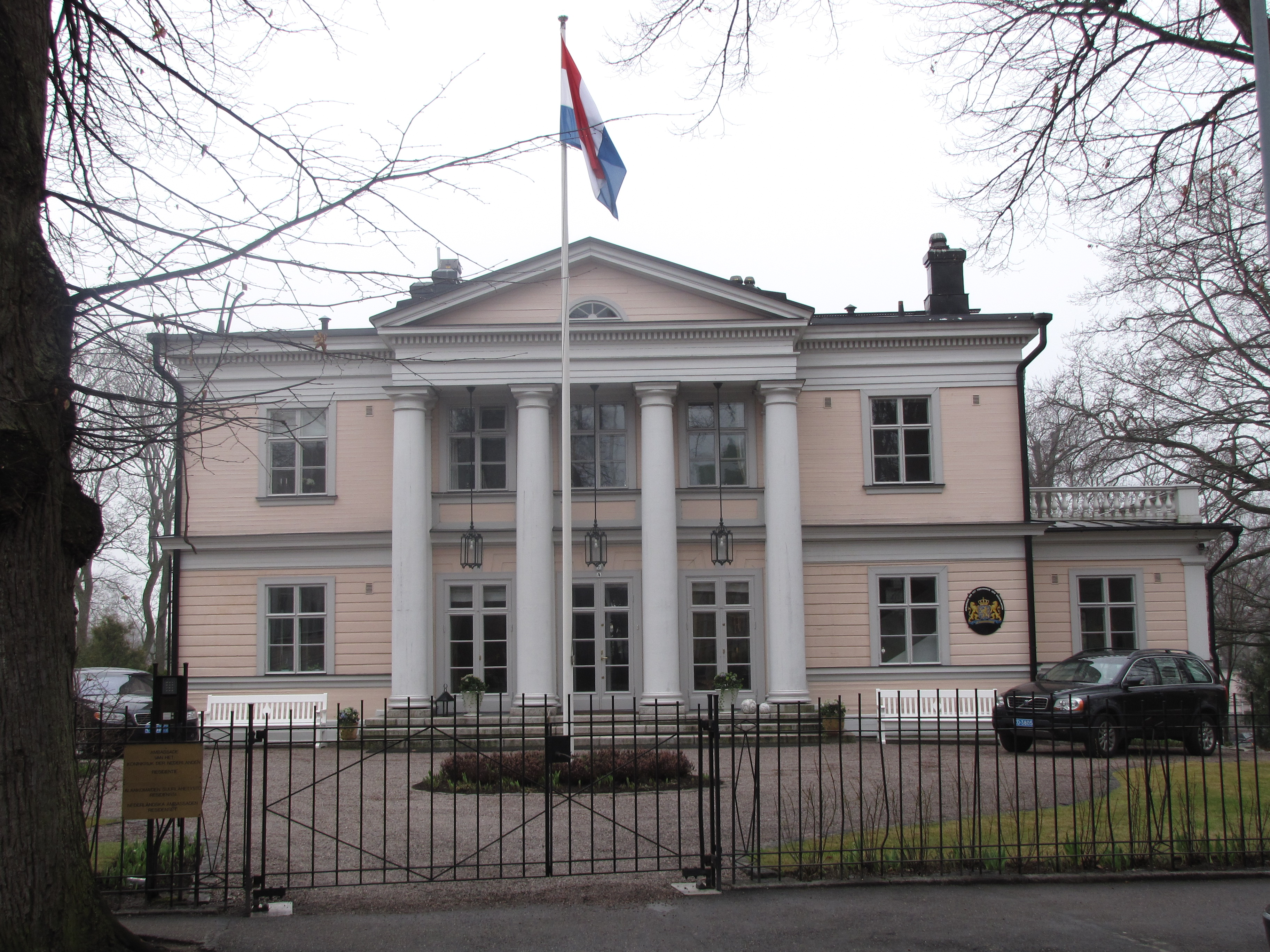 Residence of the embassy of the Kingdom of Netherlands in Helsinki. Address Itäinen puistotie 7. Originally built in 1839 as Villa Kleineh for Louis Kleineh, enlarged in 1929. The oldest surviving villa in Kaivopuisto.